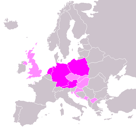 Countries with mobile network operators which are controlled by T-Mobile International. Note: T-Mobile USA is not covered by the map.